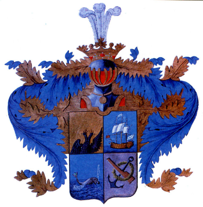 Coat of arms of admiral Vasili Chichagov, granted 1792.